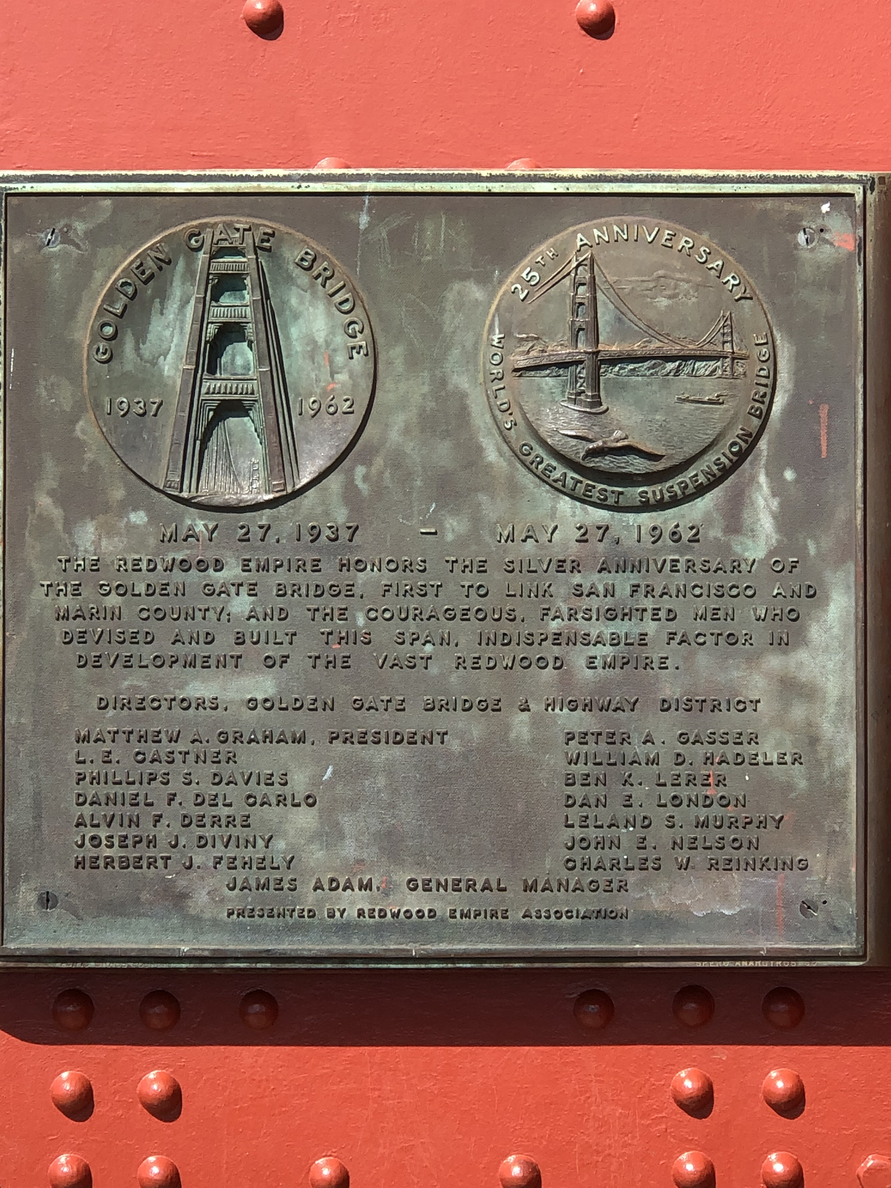 This is a photo of a plaque commemorating the 25th anniversary of the completion of the Golden Gate Bridge. It is located on the south tower of the bridge.